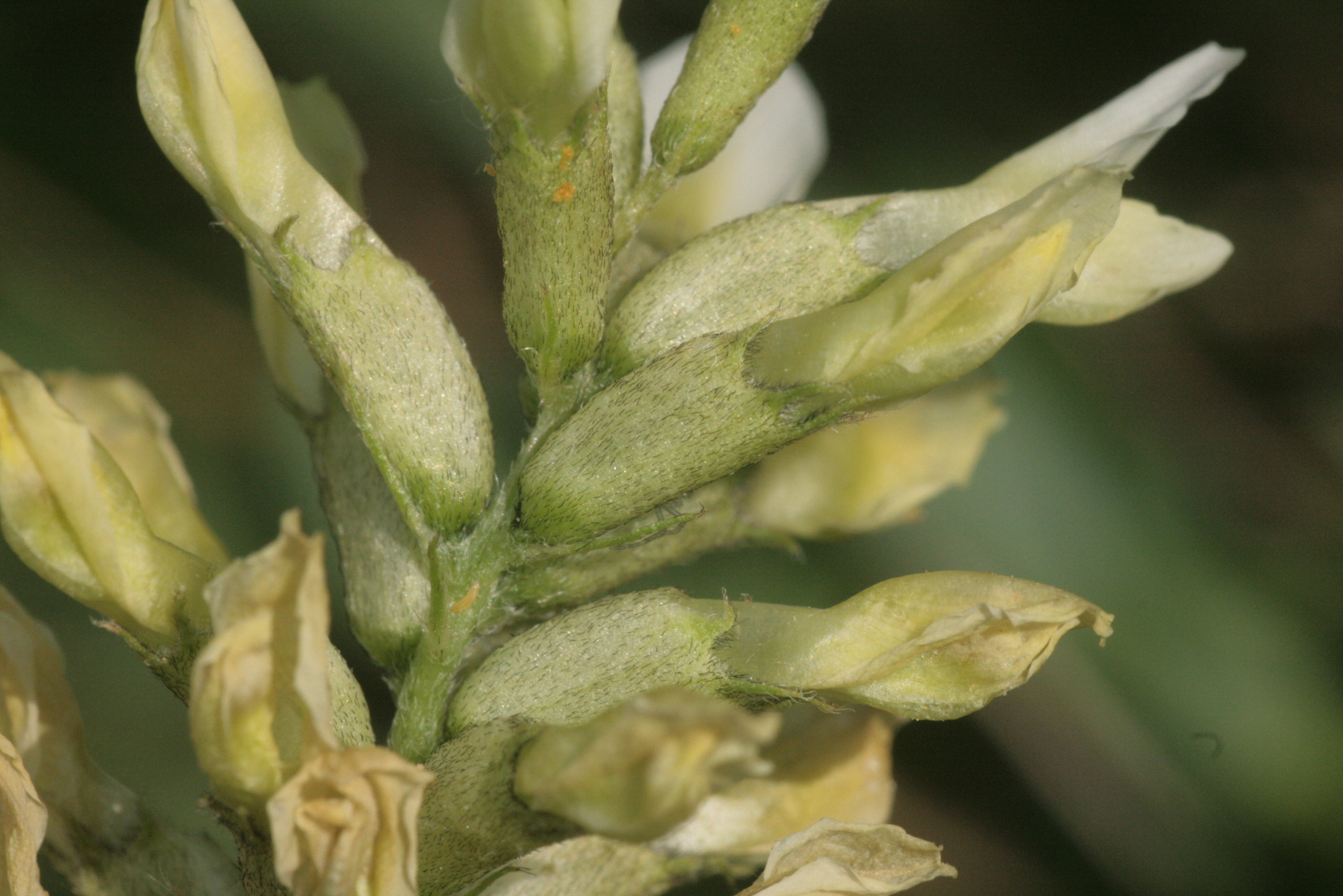 Astragalus cicer